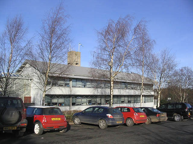 Scottish Borders Council Regional Headquarters, Newtown St. Boswells